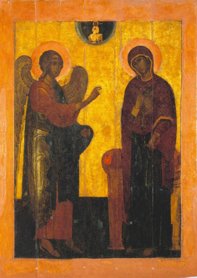 «Annunciation Ustyuzhskoe (from Ustyuzh)». Copy from Cathedral of the Archangel in the Moscow Kremlin